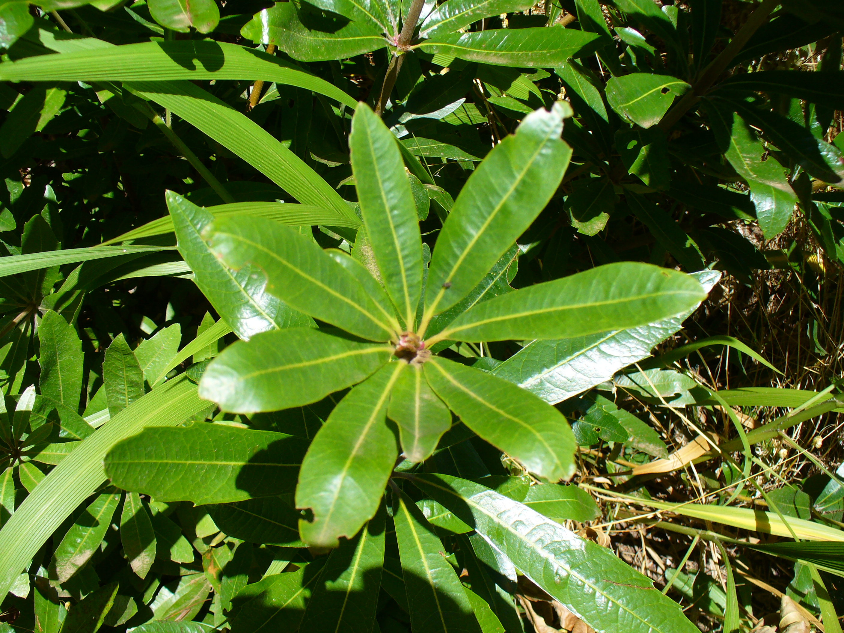 Wild Almond Leaf